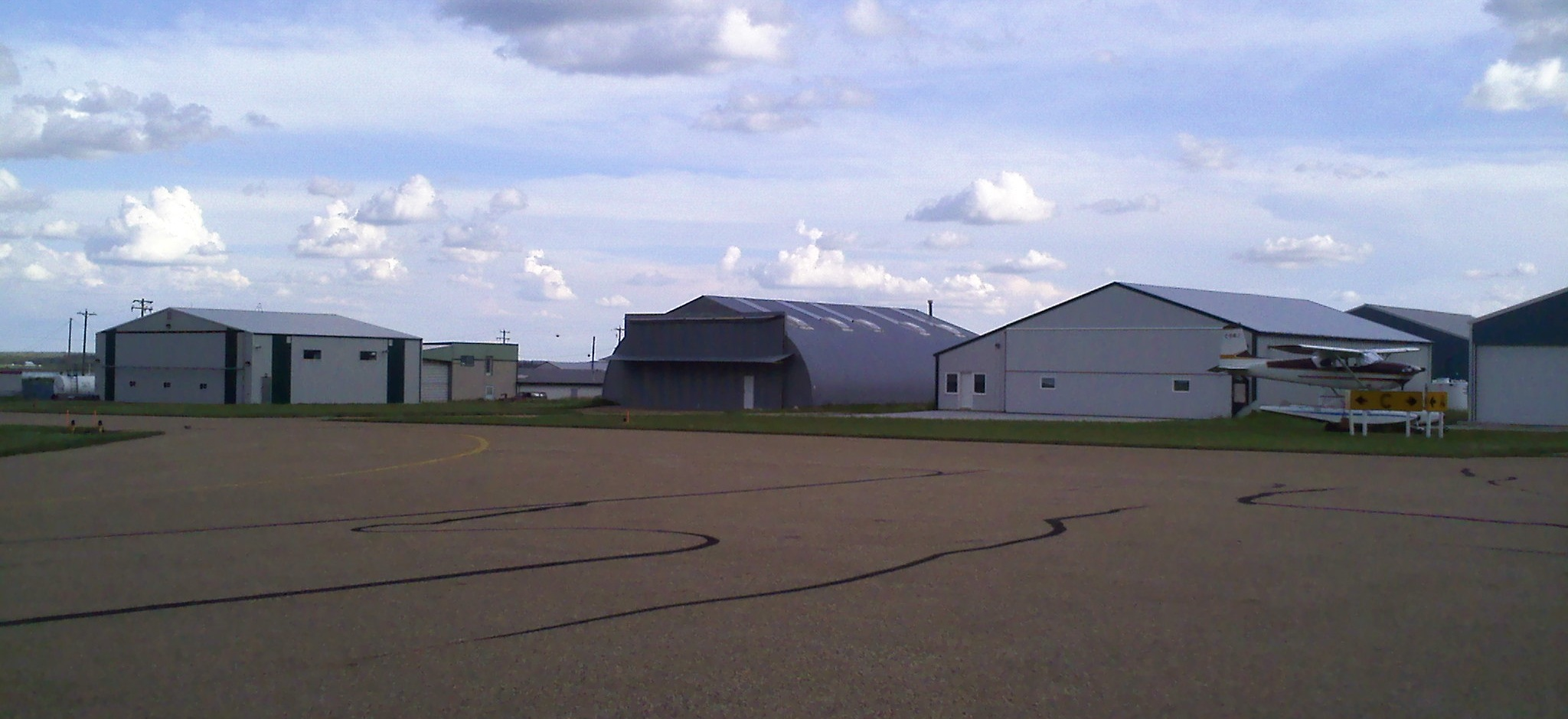 Hangers at the Cooking Lake Airport, by South Cooking Lake, Alberta. Piemontèis: Edmonton - Cooking Lake Airport